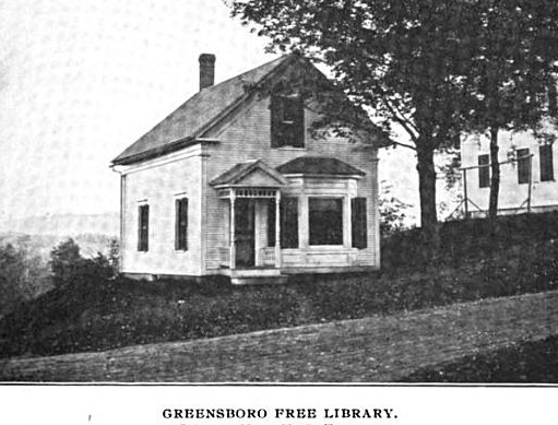 Library in Vermont